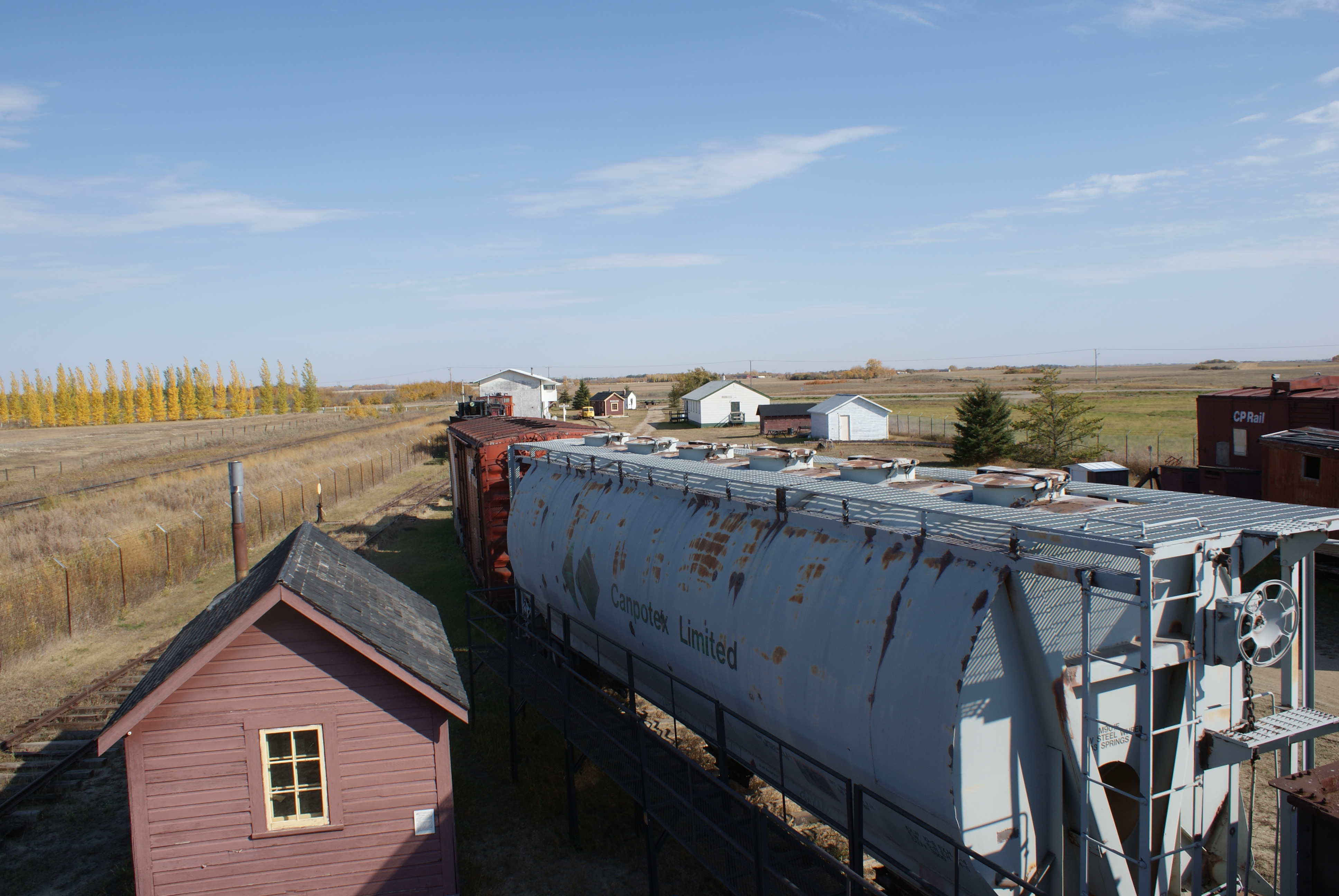 Saskatchewan Railway Museum looking west from atop the Oban interlocking tower.